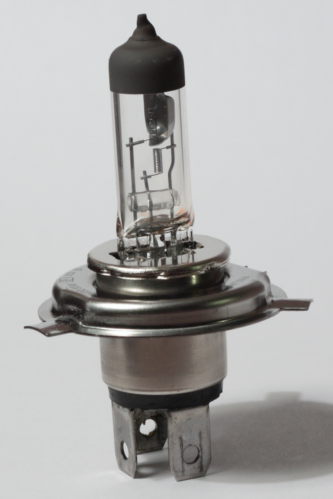 A used Philips Premium H4 12V 60W/55W automotive lamp. The low-beam filament has lost particles from the surface because it has been used for several months if not years.